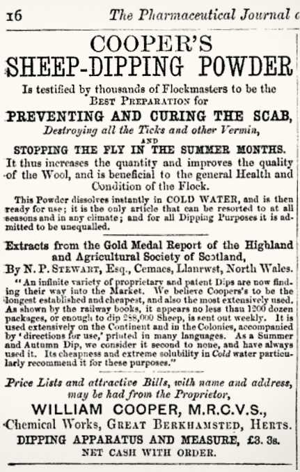 Advertisement in The Pharmaceutical Journal and Transactions, 1871: "COOPER'S SHEEP-DIPPING POWDER is testified by thousands of Flockmaster to the best preparation for preventing and curing the scab." "William Cooper, MRCVS, Chemical Works, Great Berkhamsted, Herts"